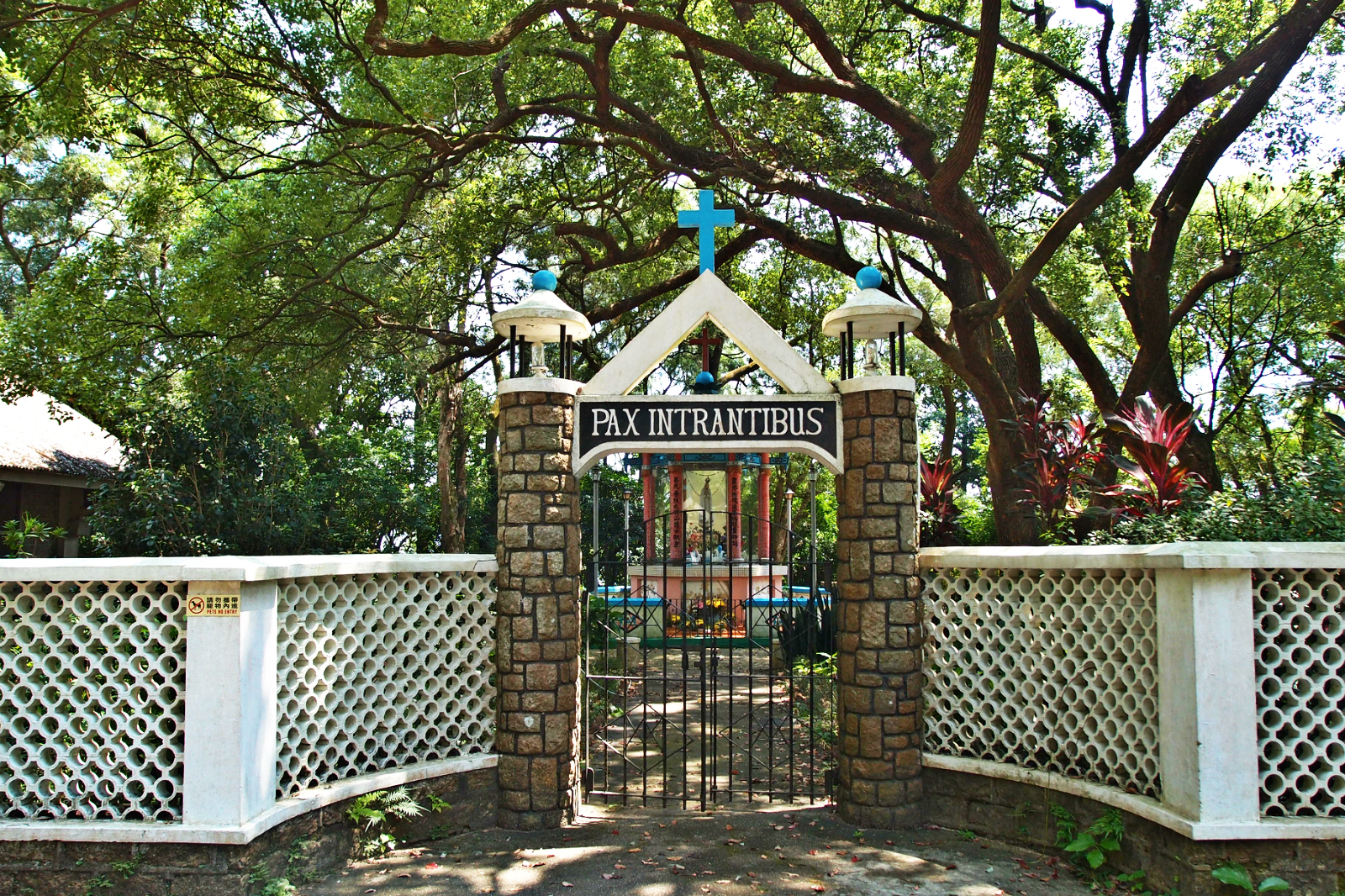 遊客可以進入的小花園